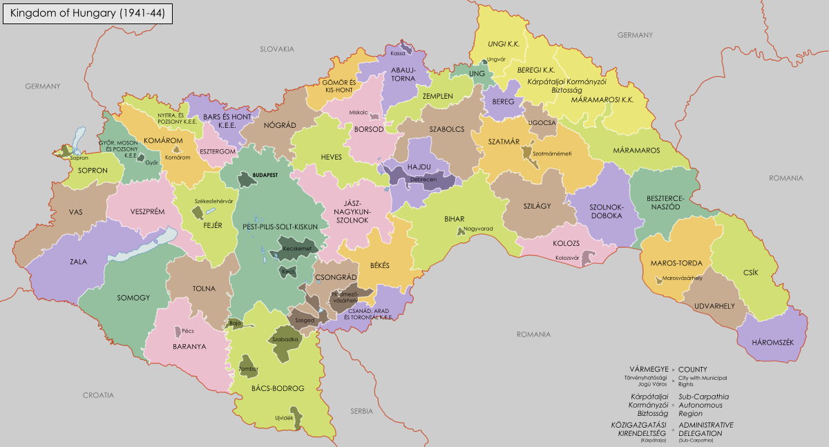 Map of the Kingdom of Hungary from 1941-44 showing counties and cities with municipal rights